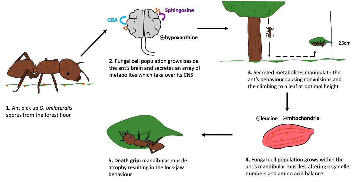 Natural products secreted by O. unilateralis which alter the infected ant's behaviour: convulsion, climbing, death grip